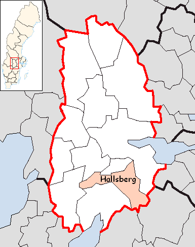 Hallsberg Municipality in Örebro County Designd by me, based on Image:Örebro County.png